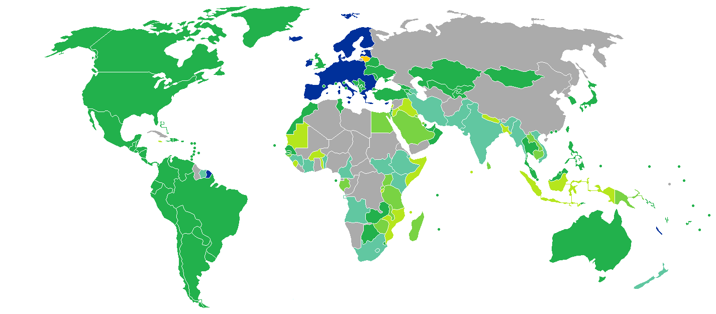 Visa requirements for Lithuanian citizens Lithuania Freedom of movement Visa not required Visa on arrival eVisa Visa available both on arrival or online Visa required prior to arrival